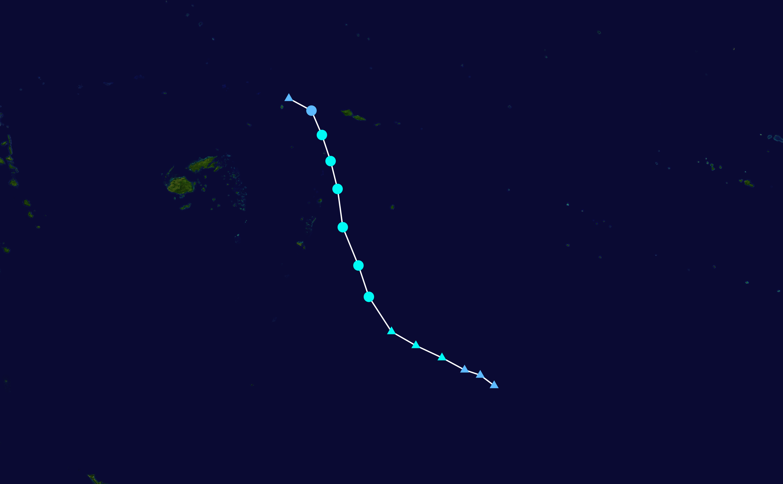 Cyclone Urmil (2006) track. Uses the color scheme from the Saffir-Simpson Hurricane Scale.